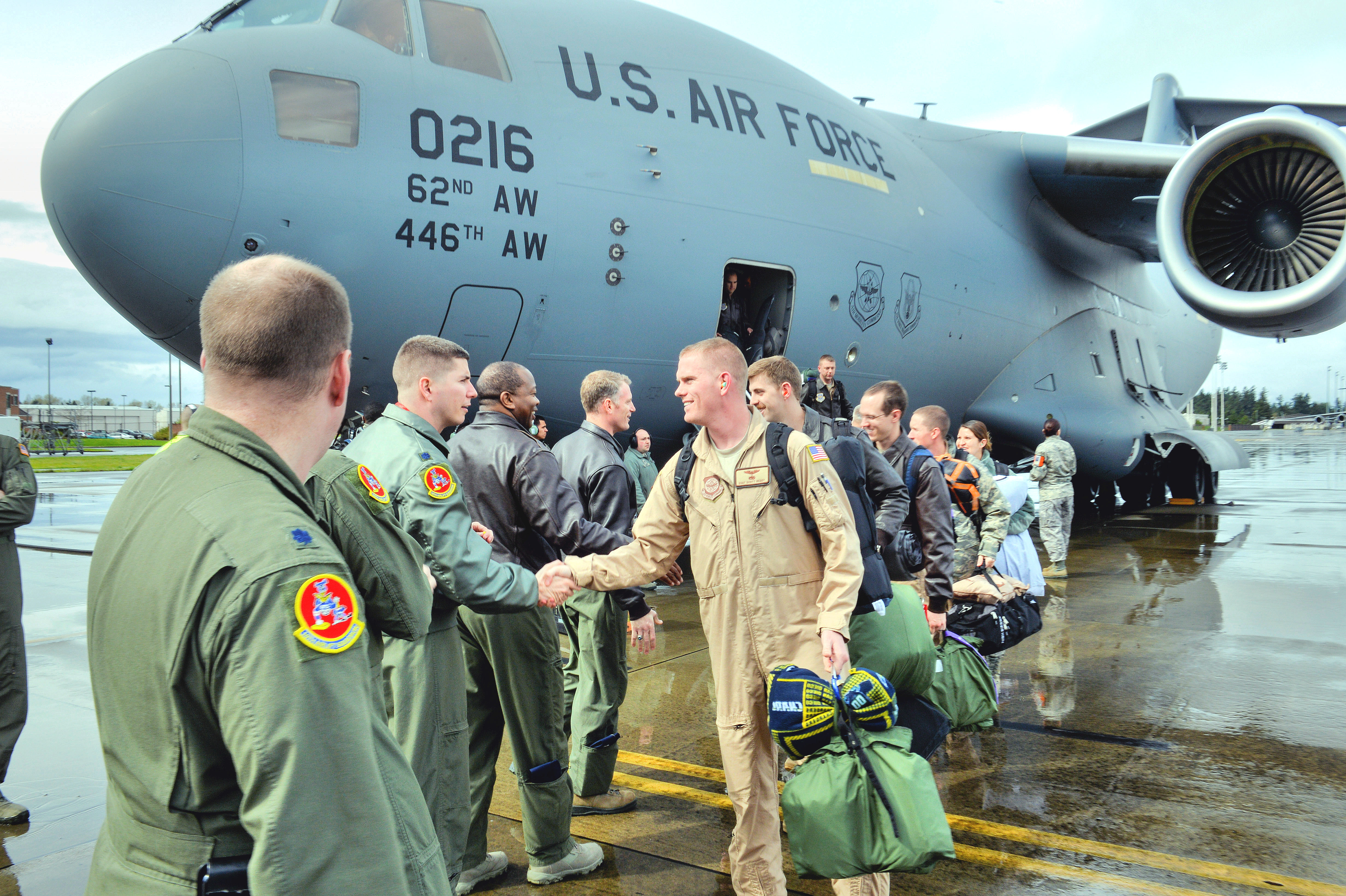 Members of the 8th Airlift Squadron are welcomed home as they return from a 60-day deployment to Southwest Asia in support of Operation Enduring Freedom, April 5, 2013, at Joint Base Lewis-McChord, Wash. The unit deployed as part of the 817th Expeditionary Airlift Squadron to provide global strategic airlift, airdrop, aeromedical evacuation and humanitarian relief. (U.S. Air Force photo/Airman 1st Class Jacob Jimenez)